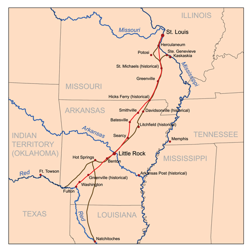 This is a map I made of the Southwest Trail through Missouri and Arkansas. The Southwest Trail or Military Road as it was in the mid-1800's is in red. The Natchitoches Trace that it replaced is in brown. Map is based heavily on maps available at